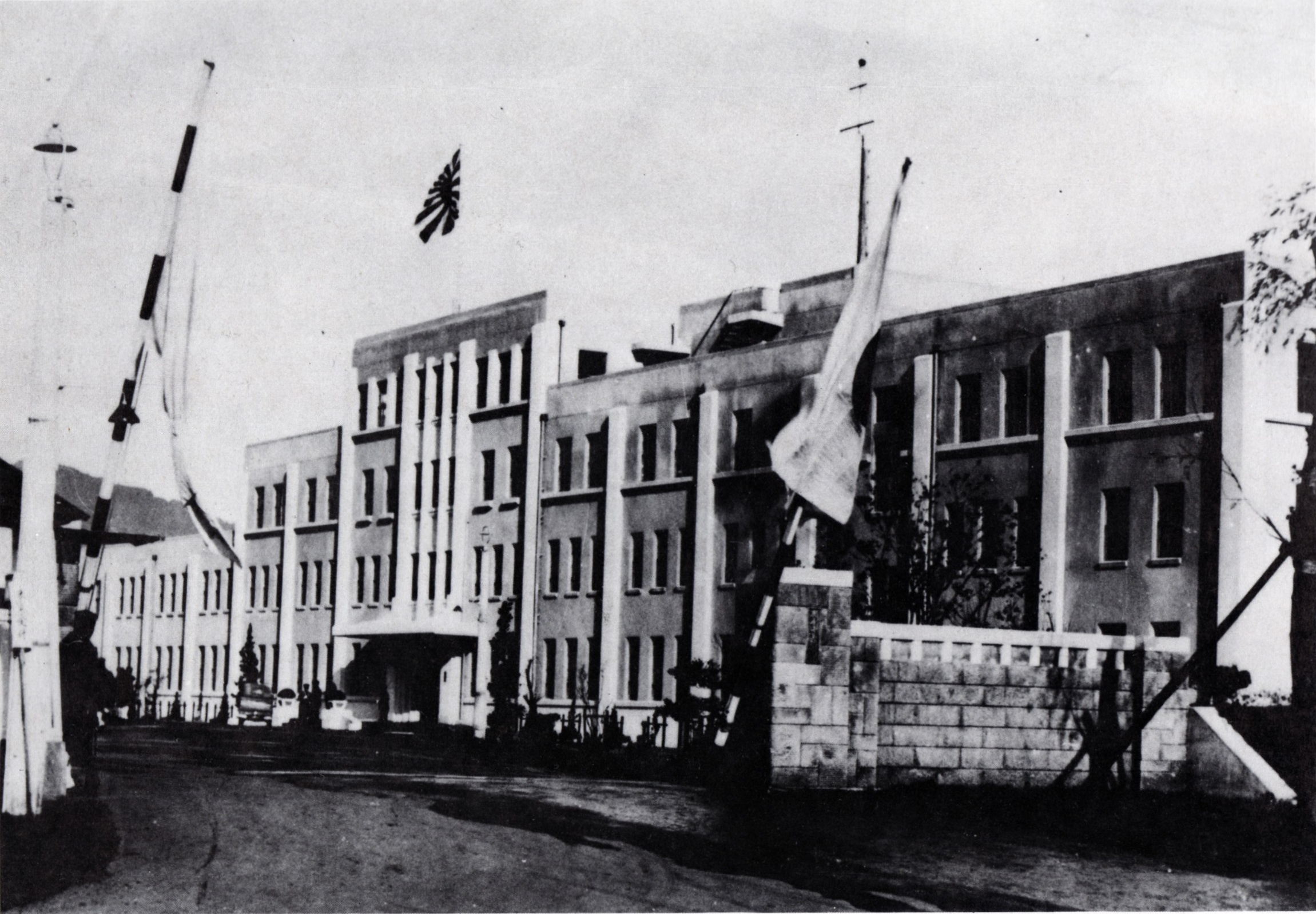 (1936-1945)Kanoya Naval Air Corps Headquarters, (1954-2015)JMSDF Kanoya Air Base (Kanoya City, Kagoshima Prefecture, Japan)